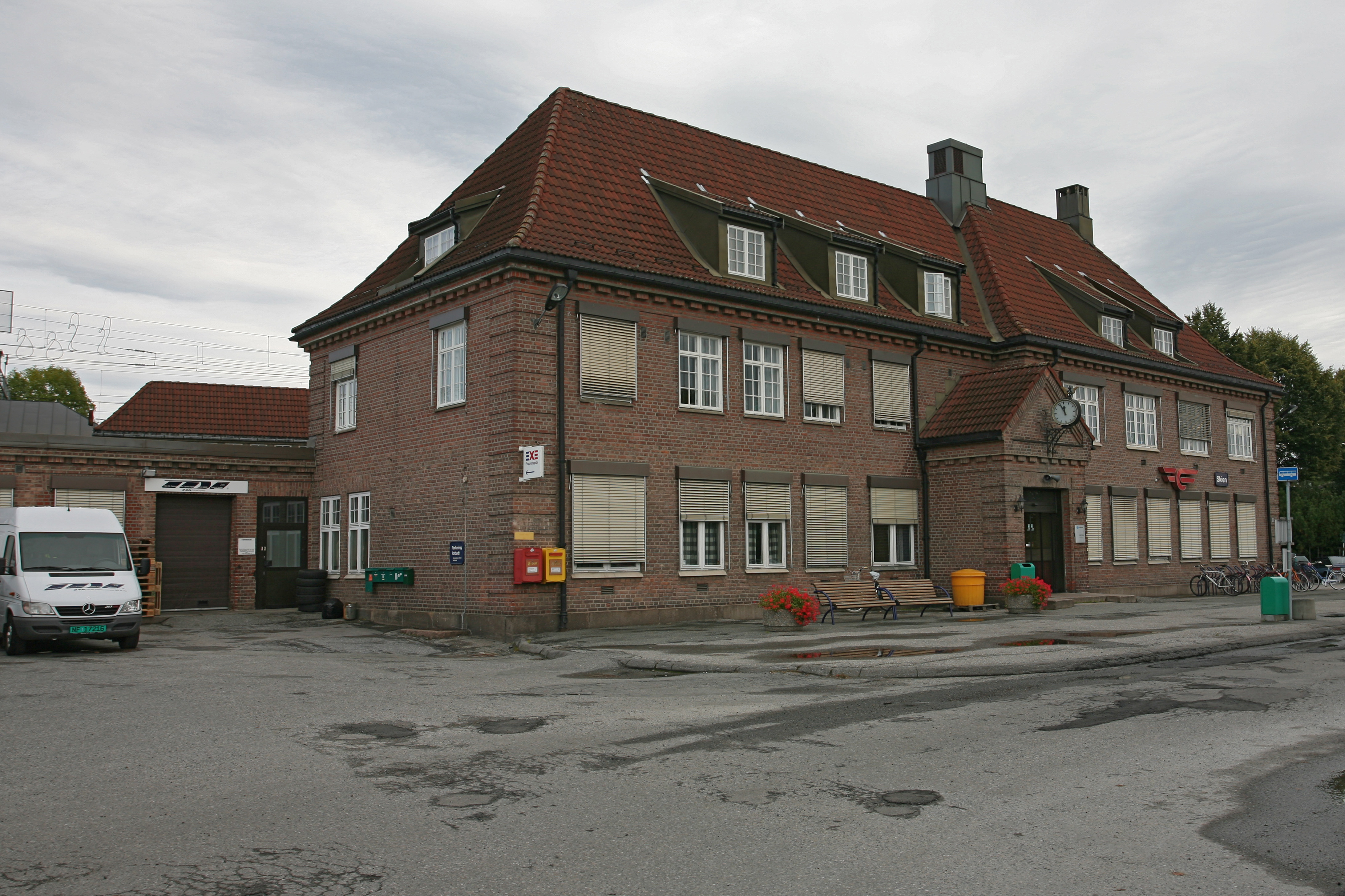 Picture of Skien Railway Station (Telemark - Norway)